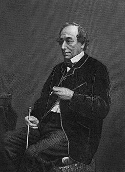 source: en: UT Library Online Portrait Gallery Benjamin Disraeli in his older years